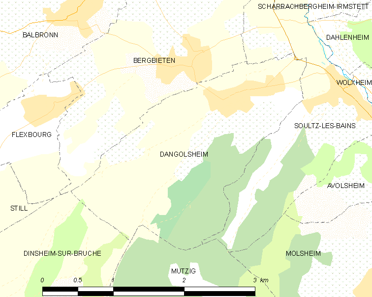 Map of French municipality